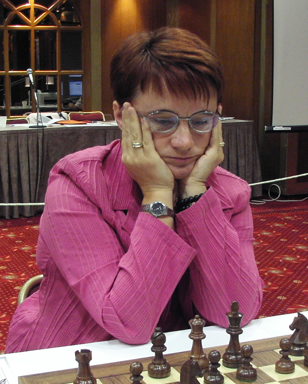 WGM Cristina-Adela Foisor Romania, Acropolis 2006